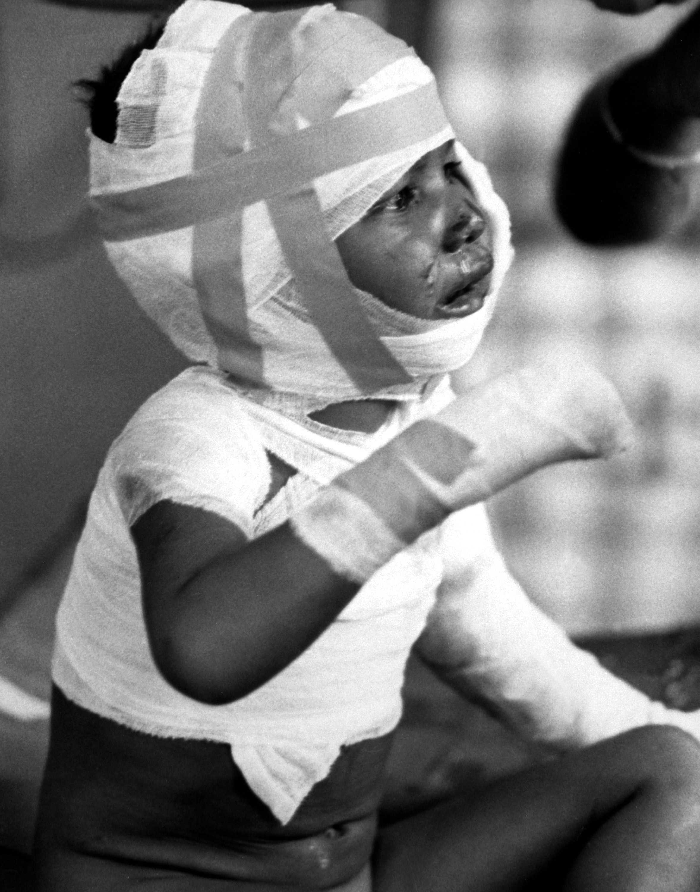 Two battalions of Viet Cong systematically killed 252 civilians in a "vengeance" attack on the small hemlet of Dak Son. Tears are streaming down the face of little three-year-old Dieu Do, now homeless, and fatherless. December 6, 1967. (USIA)